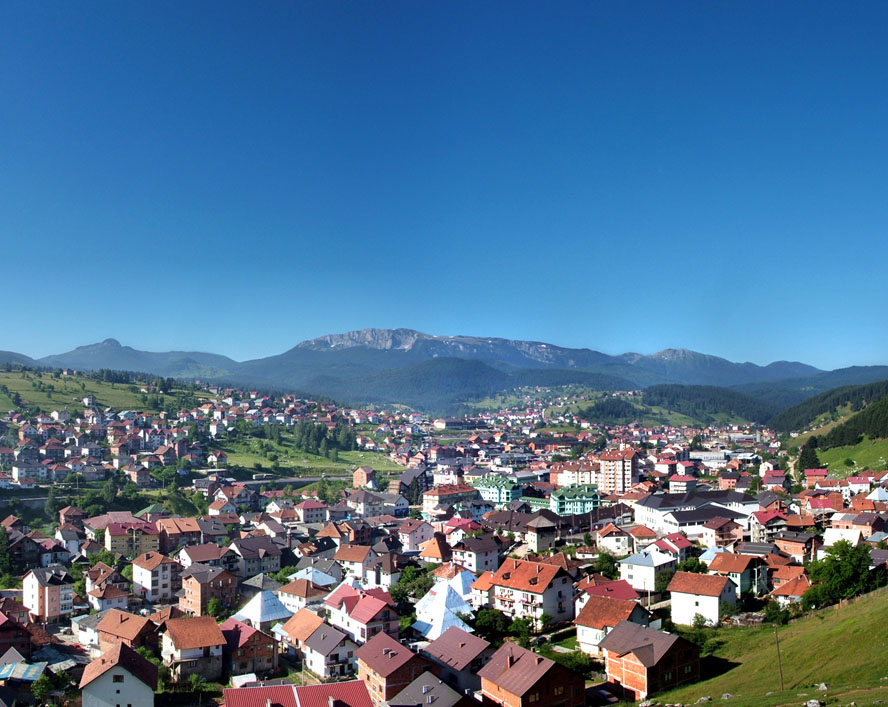 rozaje